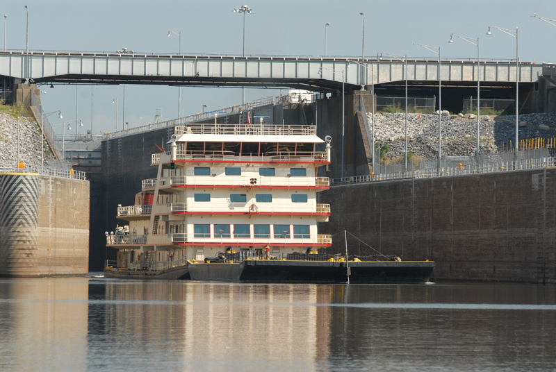 KUTTAWA, KY – The Motor Vessel MISSISSIPPI locks through the Kentucky Lock from Paducah to pick up members of the Mississippi River Commission and guests, Aug., 11 after touring the Barkley Power Plant and the Kentucky Lock Project. The Mississippi River Commission is conducting the Nashville District portion of its Annual Low-Water Inspection Trip on the Mississippi River and August 11-12, 2011. Public meetings have been scheduled aboard the Motor Vessel MISSISSIPPI in selected towns along the river so commission members have the opportunity to meet with local residents and hear their concerns, ideas and studying impacts from flooding during 2011. (U.S. Army Corps of Engineers photo by Mark Rankin)